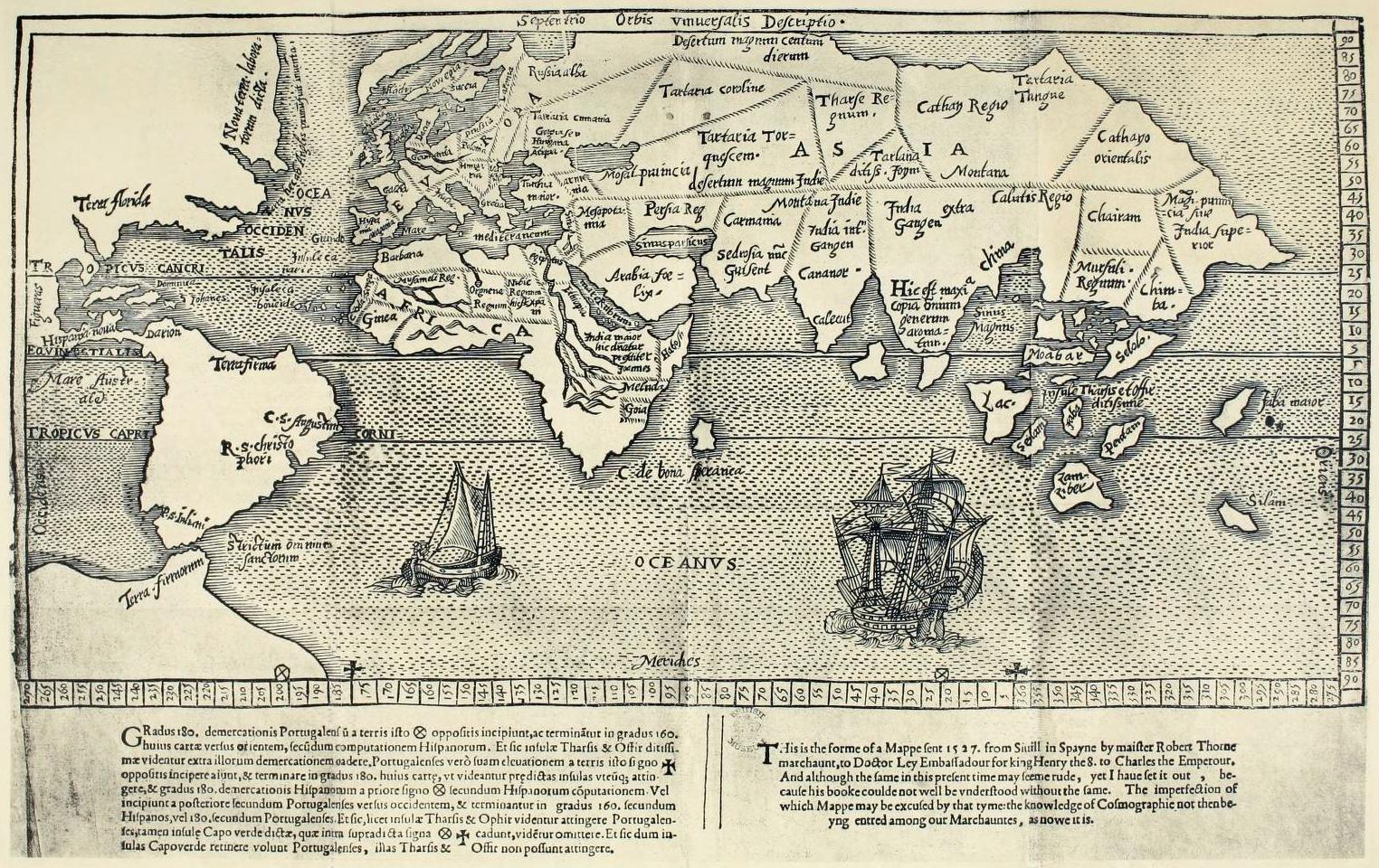 World map sent by Robert Thorne in 1527 from Seville (Spain) to the English ambassador to Charles, king of Spain and emperor of Germany. First published in print by Richard Hakluyt in 1582 in his book Divers voyages...